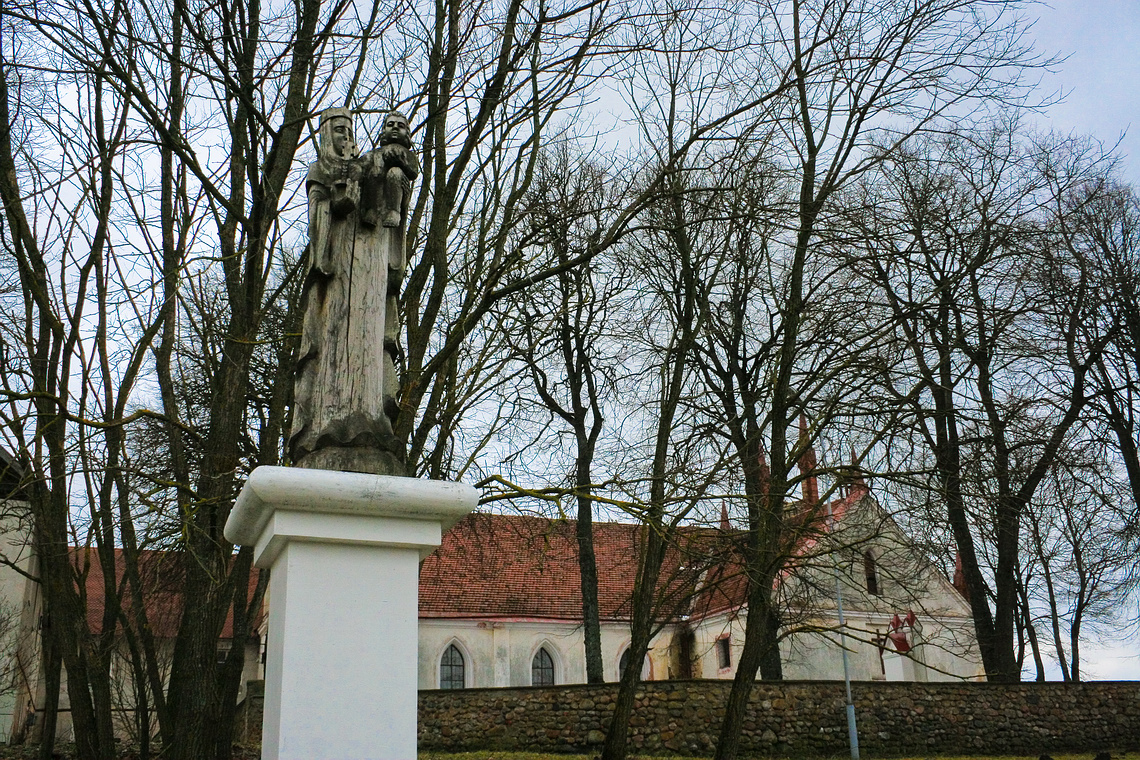 A statue of Vytautas the Great as a child on the hands of his mother Birutė in his birthplace Senieji Trakai, Lithuania